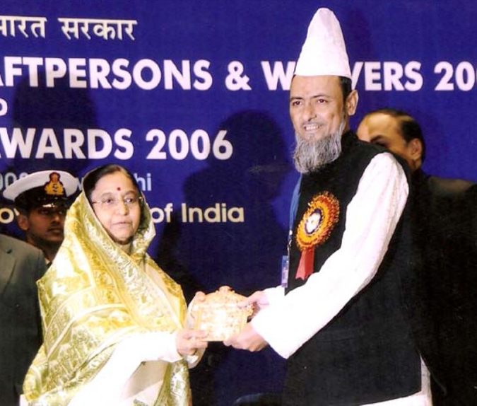 Abdul Kadar Khatri receiving National Award by former President of India Shrimati Pratibha Patil.